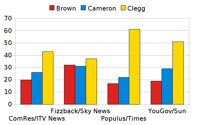 Graph of opinion poll results on the question of who voters considered to have won the first of the party leaders' televised debates, held on 15 April 2010, preceding the 2010 UK general election. The vertical axis indicates percentage and the horizontal gives the name of the polling organisations and the media outlets which commissioned the polls. Gordon Brown, David Cameron and Nick Clegg led the Labour, Conservative and Liberal Democrat parties respectively. Data is from a page revision of the English Wikipedia article on the debates, which gives its sources in footnotes. The graph was created in Draw and exported in PNG format due to problems with the SVG output.